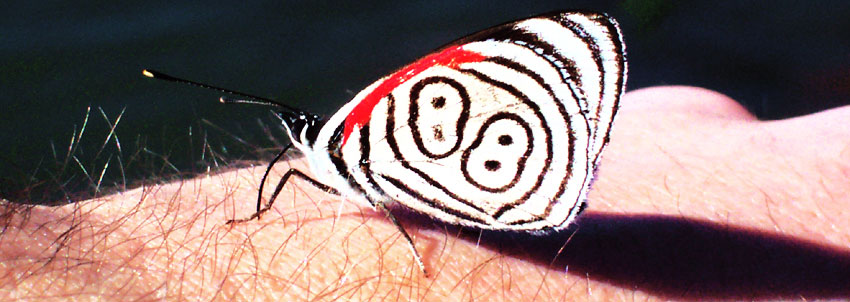 Diaethria clymena. Misiones, Argentina